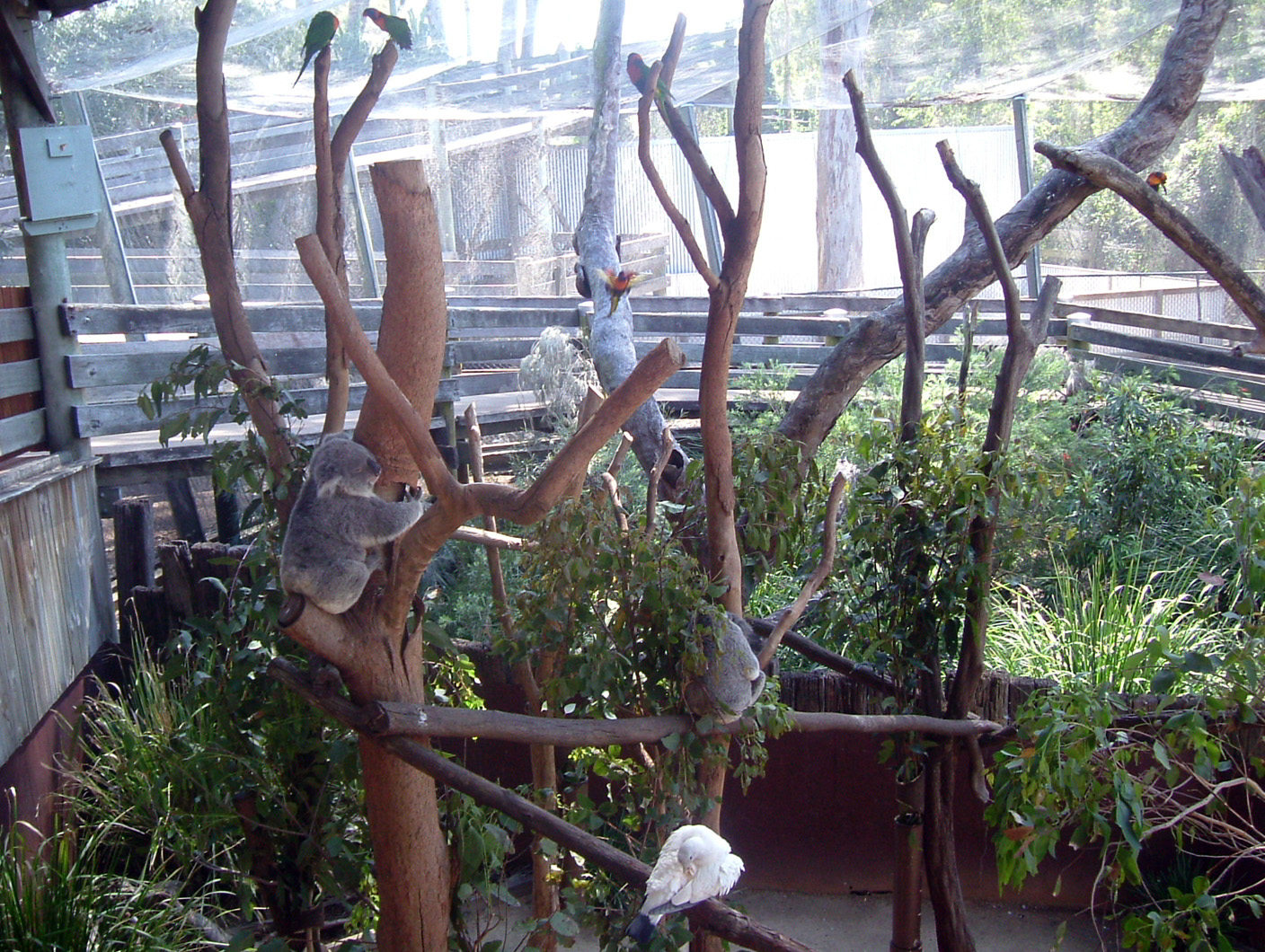 Created by myself. Can be used for any reason for any purpose.